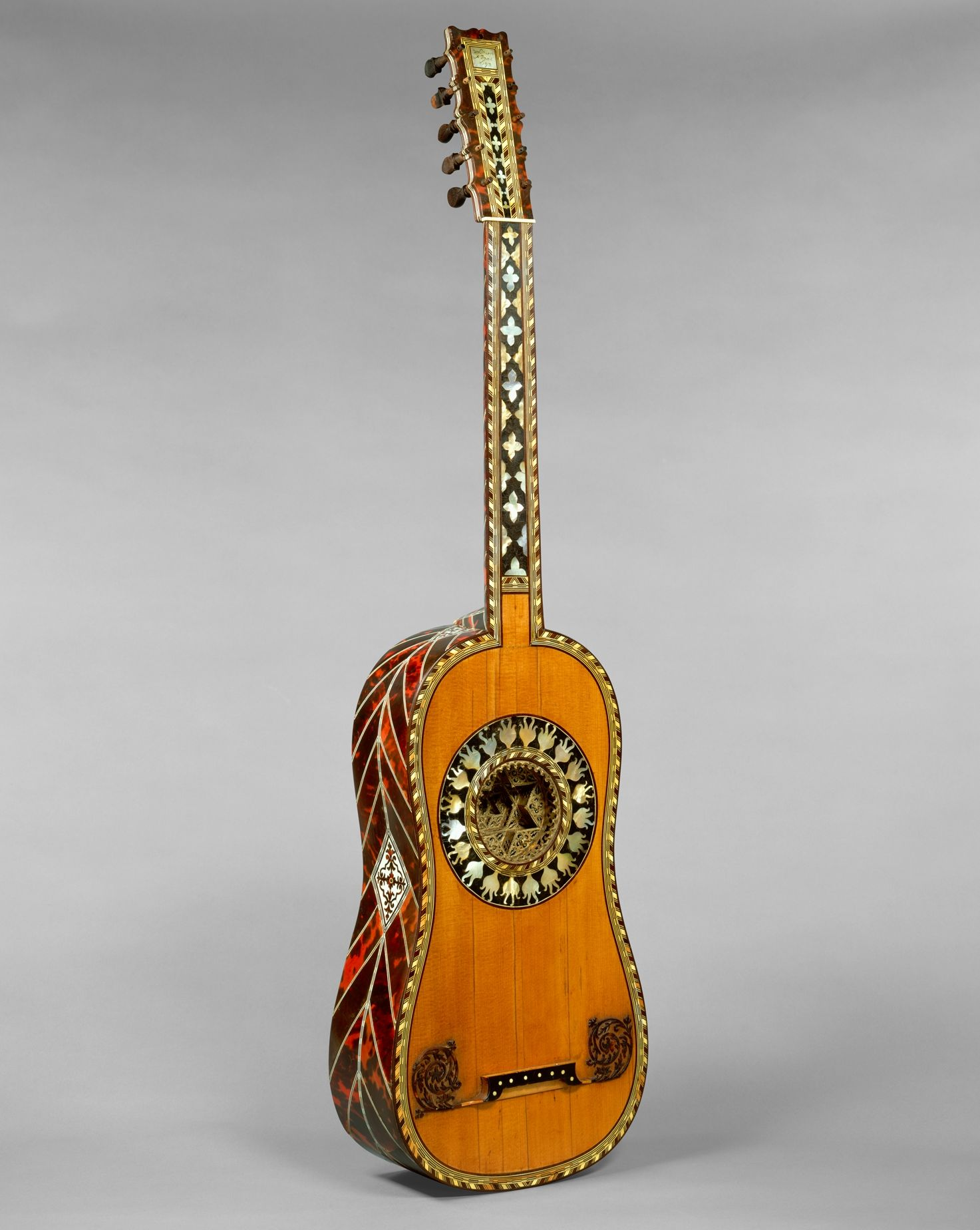 French; Guitar; Chordophone-Lute-plucked-fretted